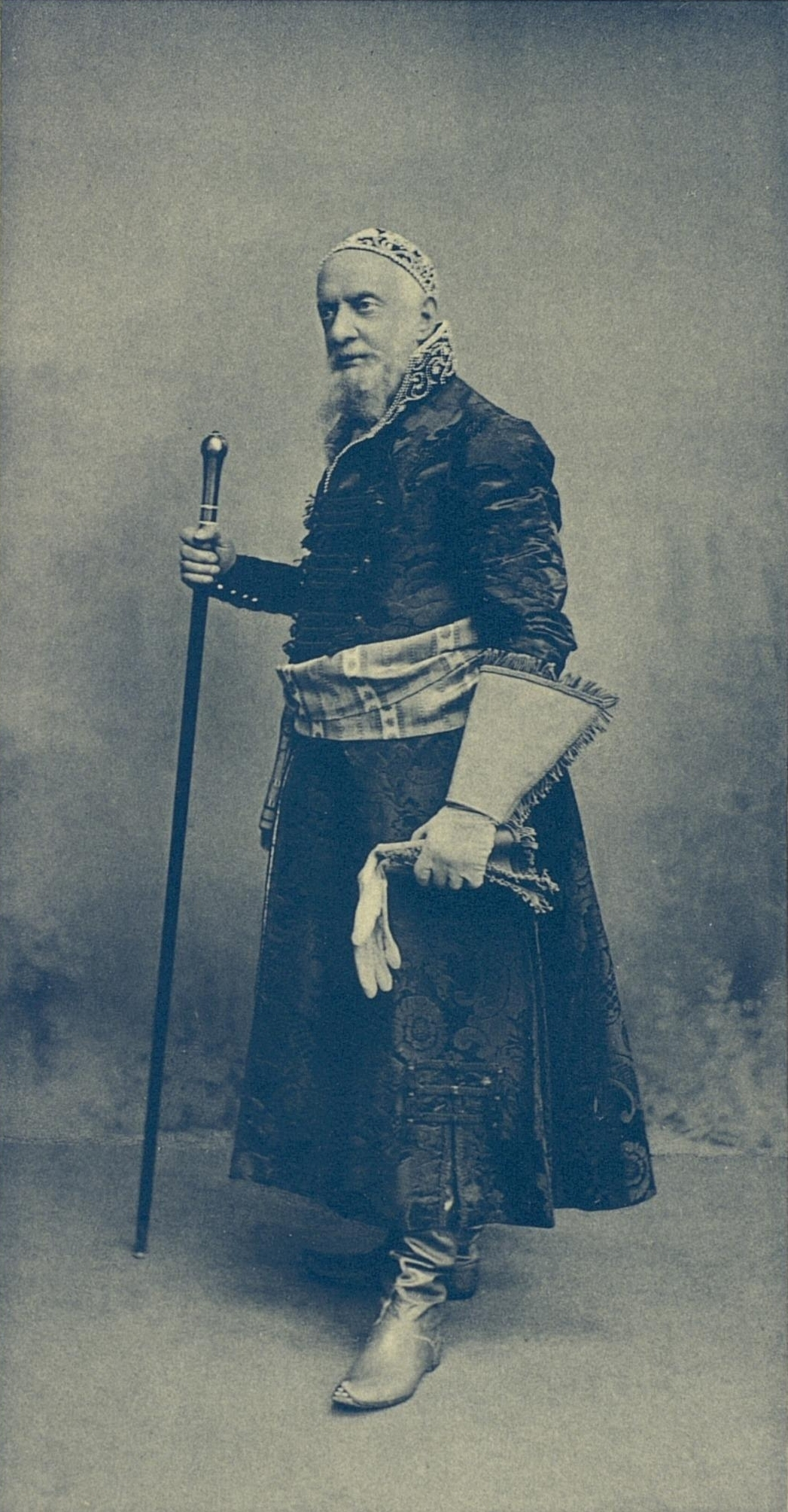 Ivan Alexandrovich Vsevolozhskiy